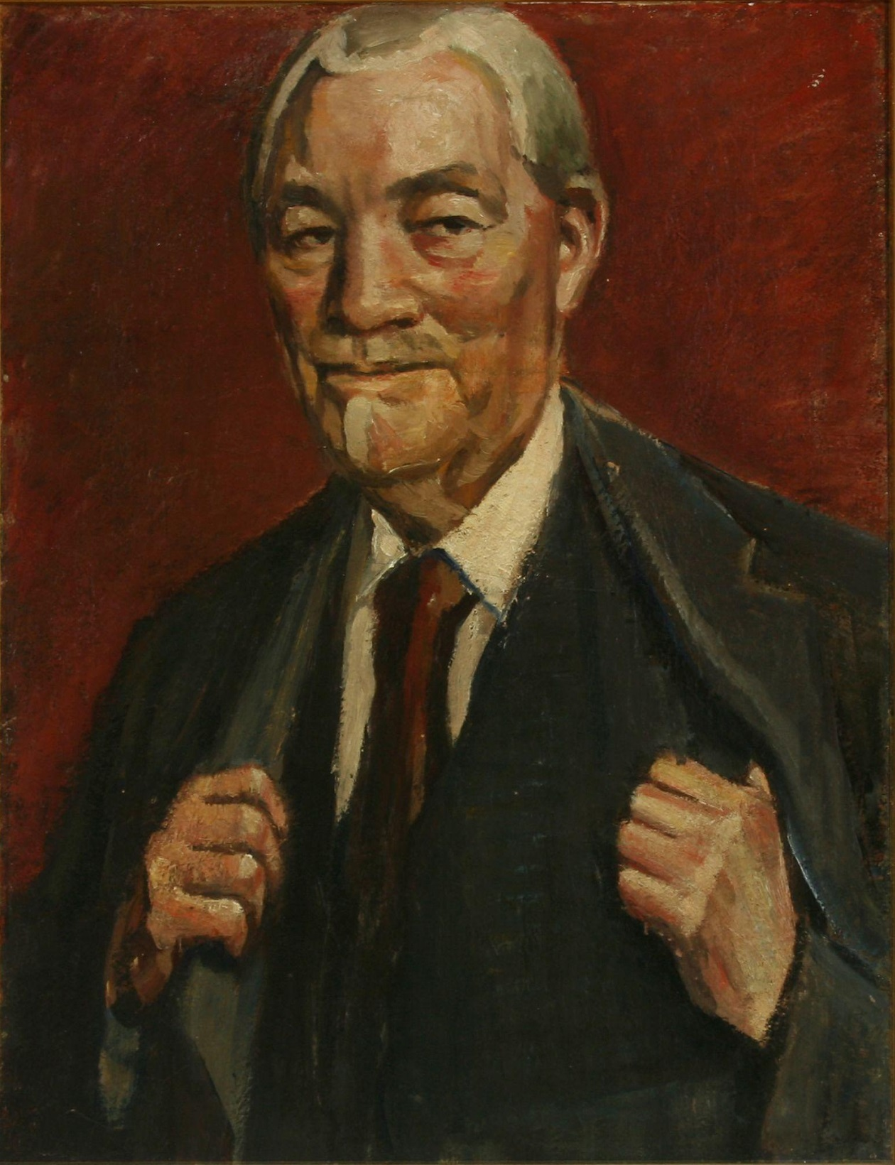 Self portrait of the Danish painter Poul S. Christiansen. Provenance